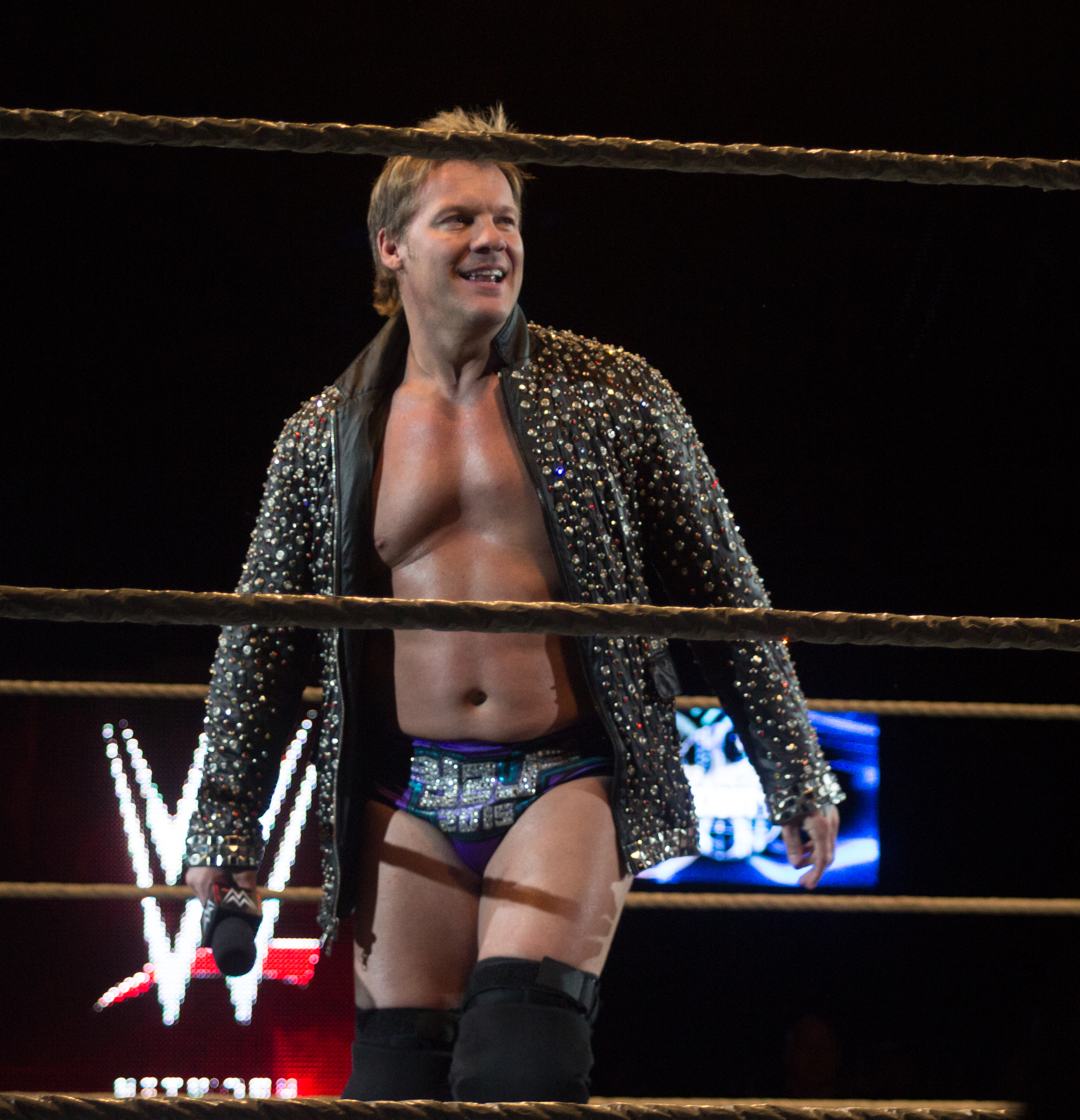 WWE House Show - Garrett Coliseum - 1/10/15